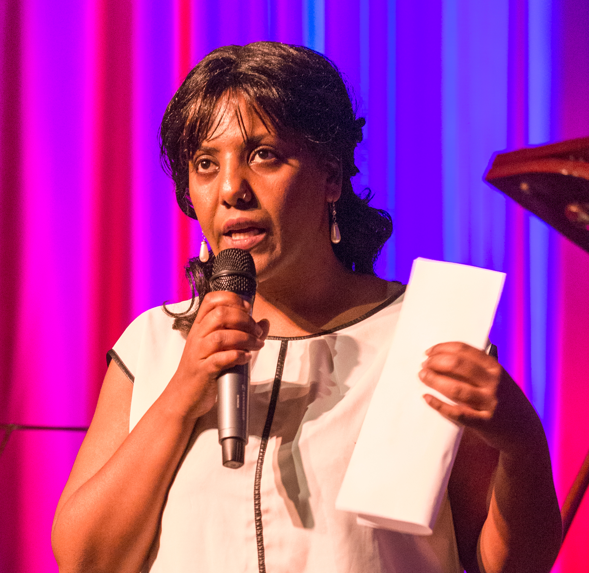 Meron Estefanos during Imprisoned Writers' Day and the award of the Tucholsky Prize to Muharrem Erbey.